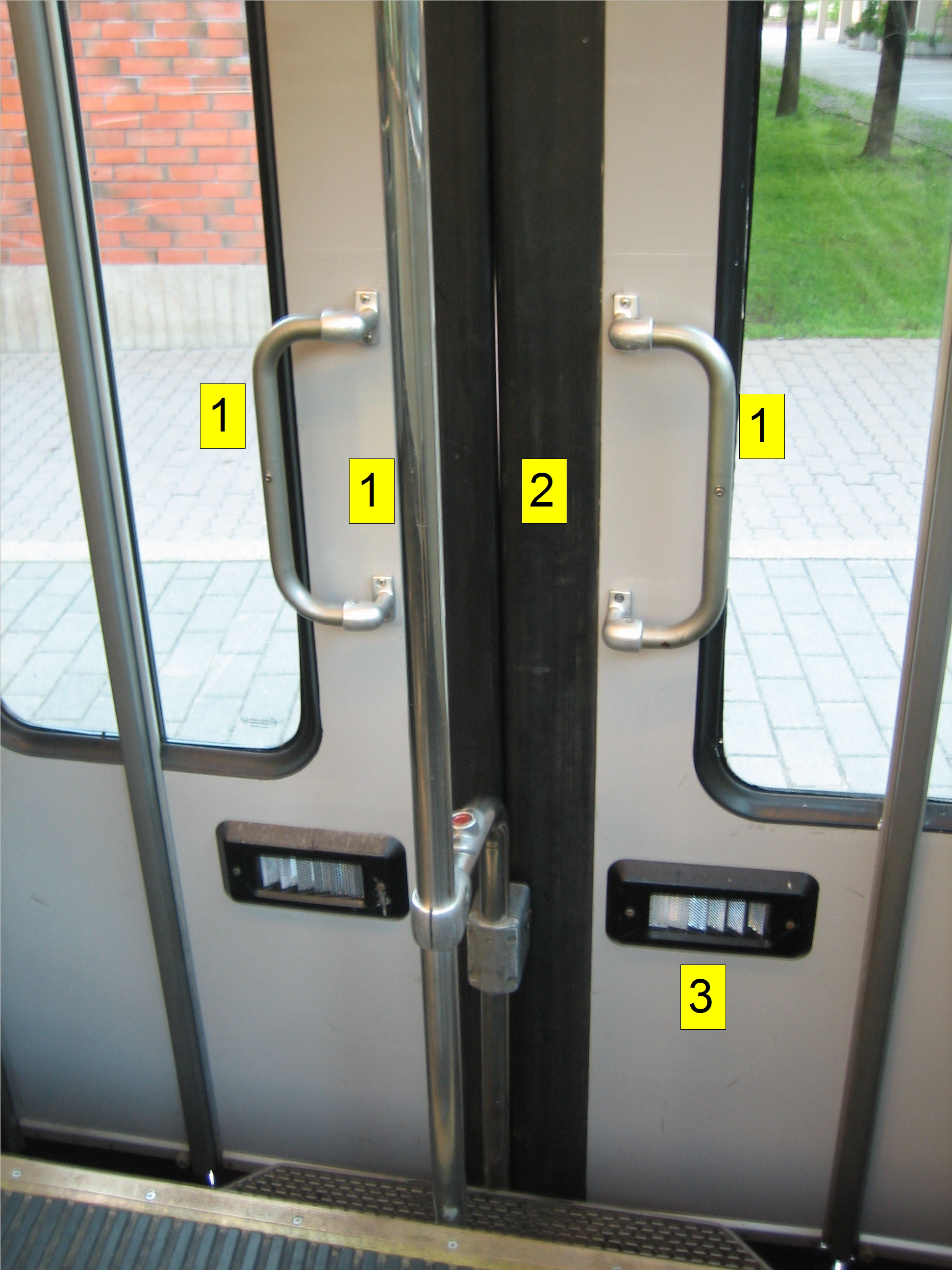 Some safety measures in a tram door